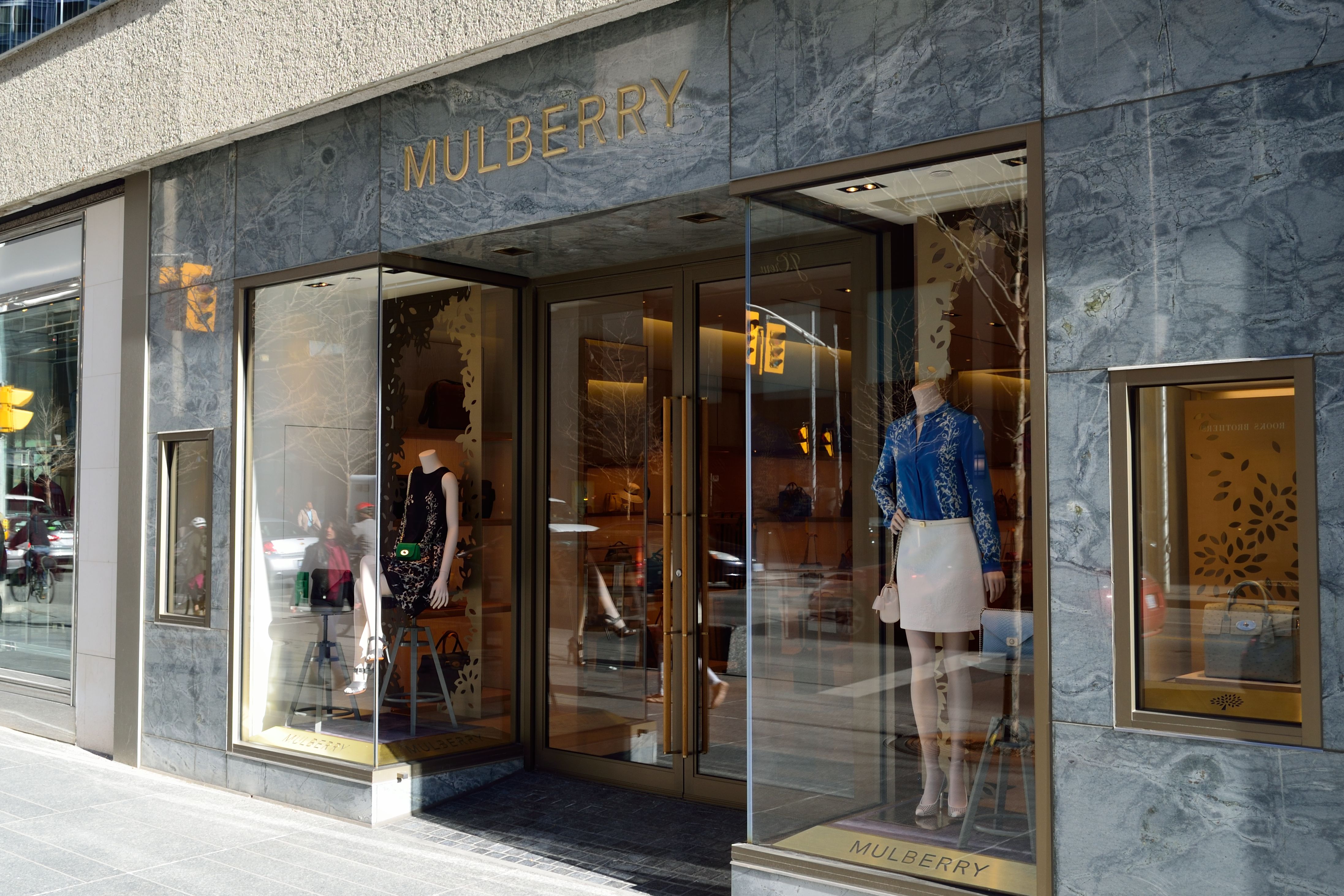 Mulberry @ Bloor Street West, Toronto